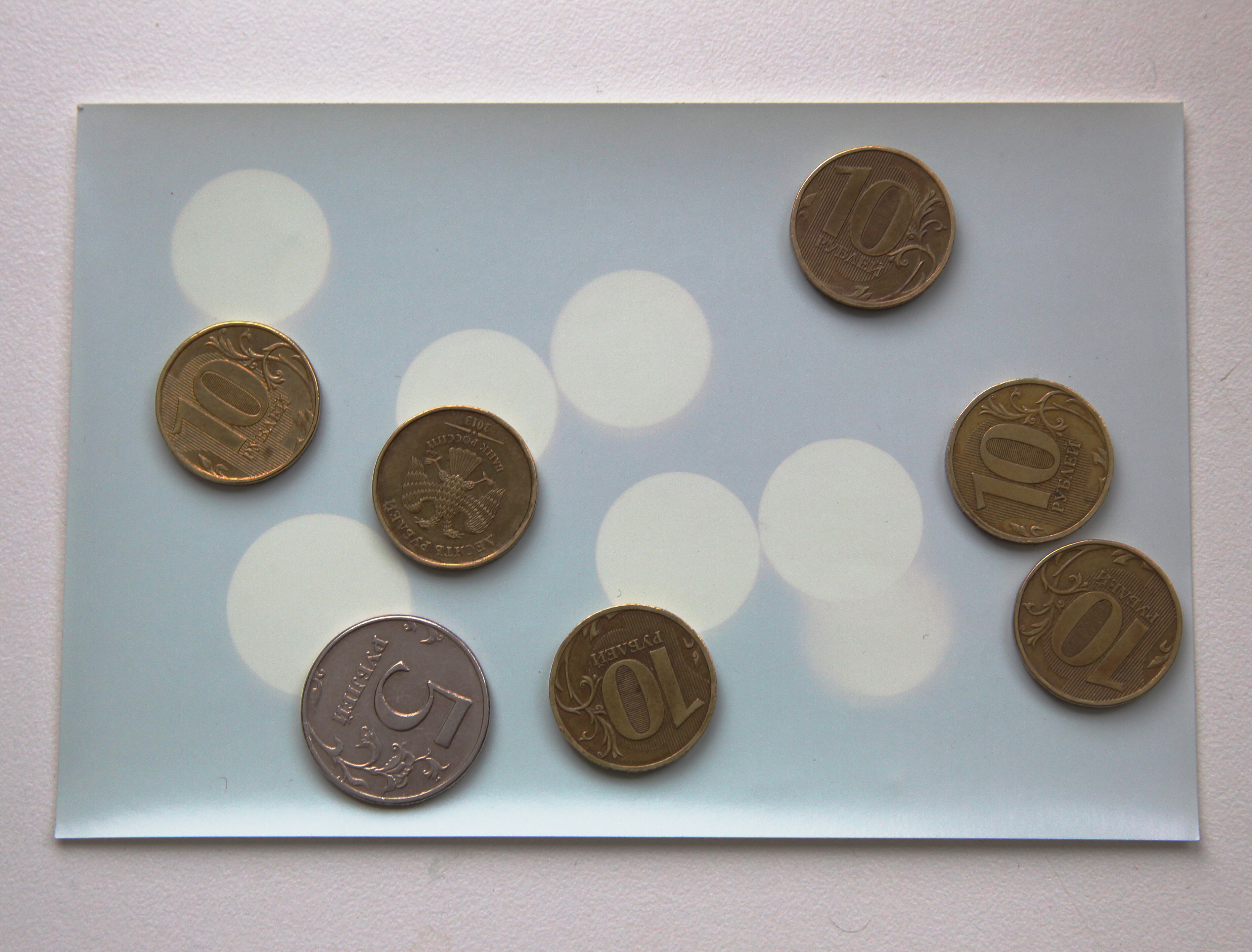 Photogram of coins at the sunlight exposed sheet of gelatin-silver photographic paper.